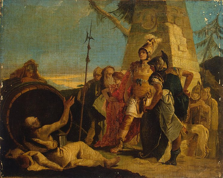 Alexander the Great and Diogenes